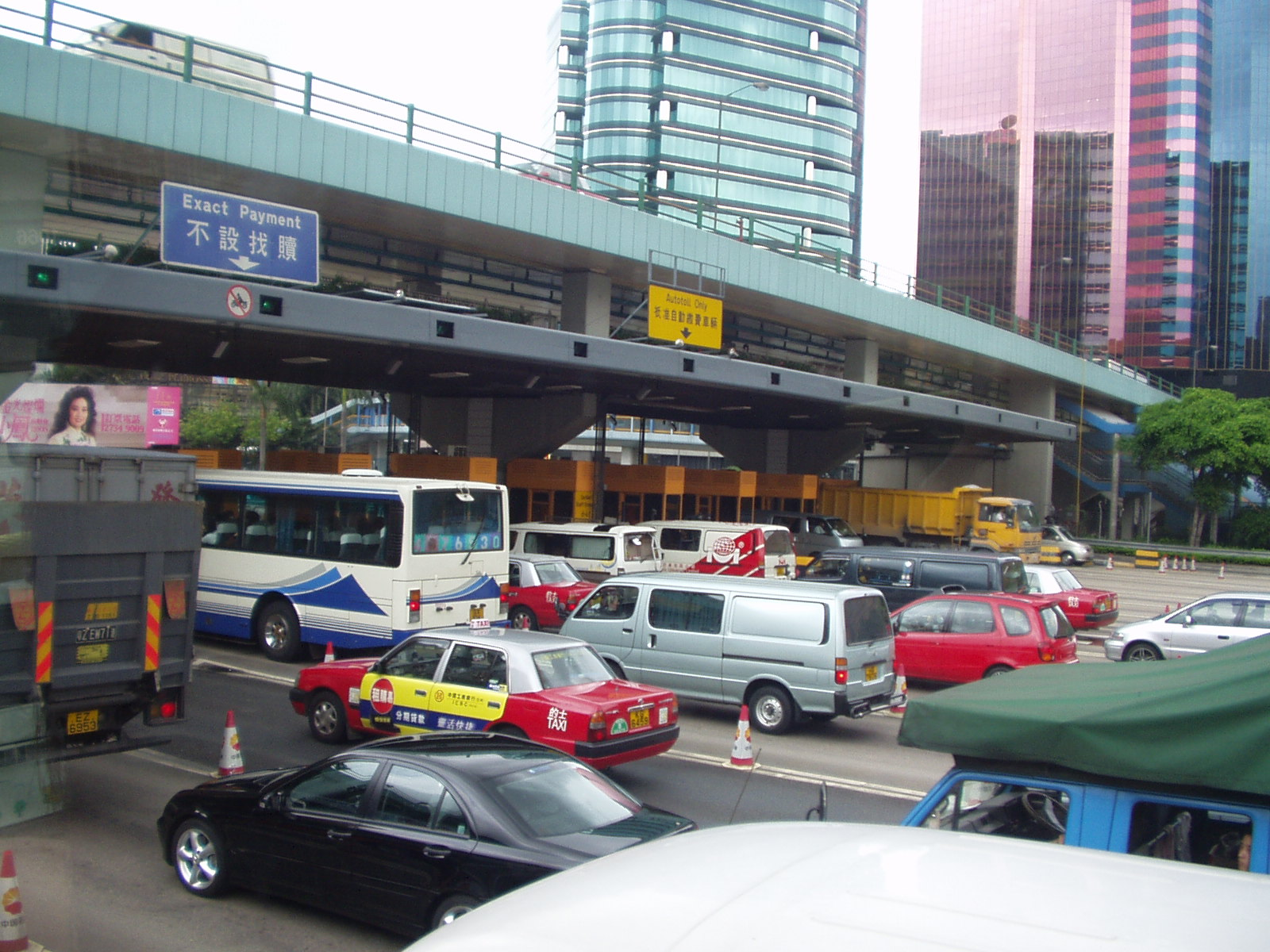 Toll of Cross harbour Tunnel, Hong Kong (Taken by Tsui Sing Yan Eric)